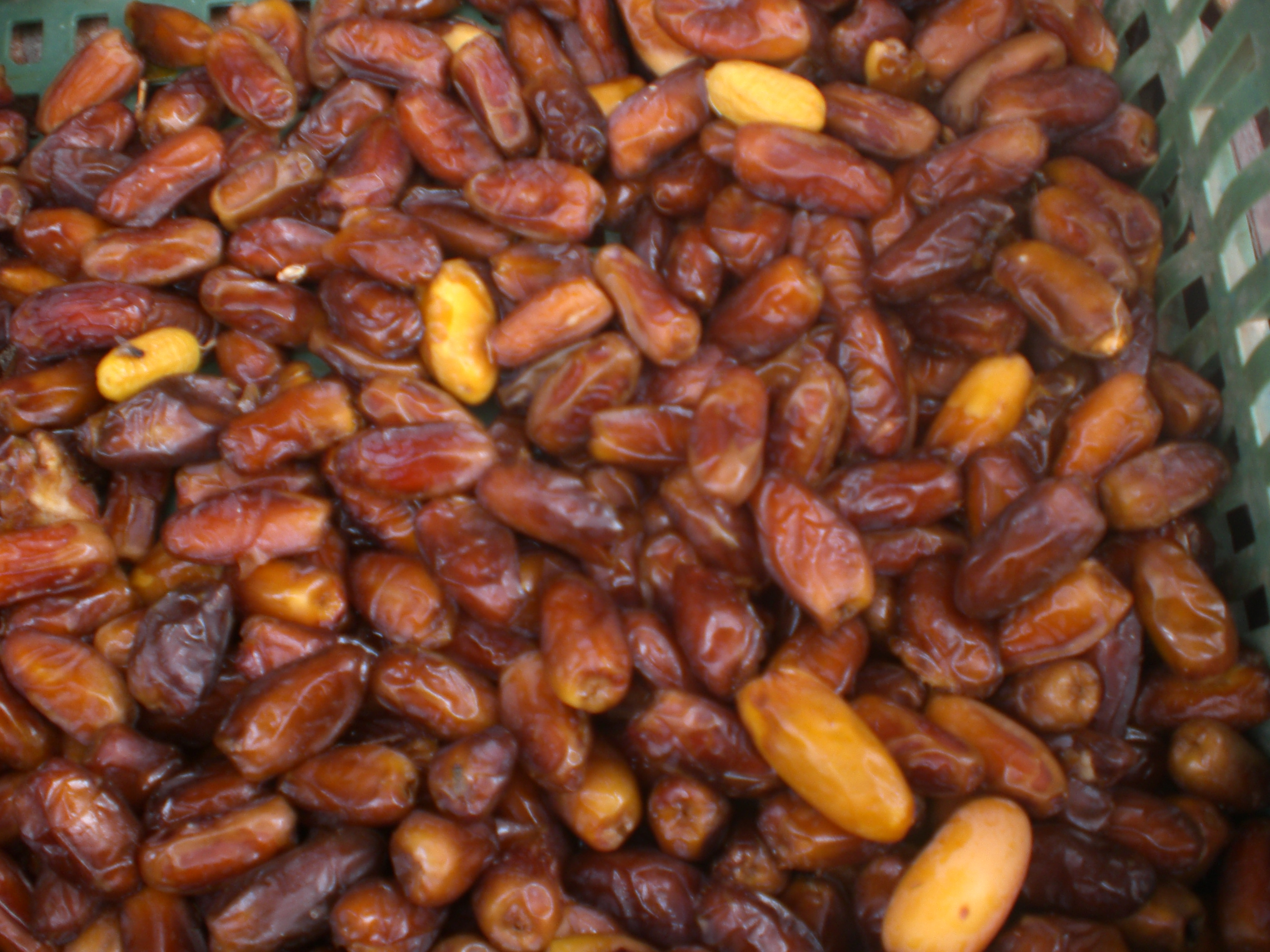 Gounda is a sort of Tunisian dates